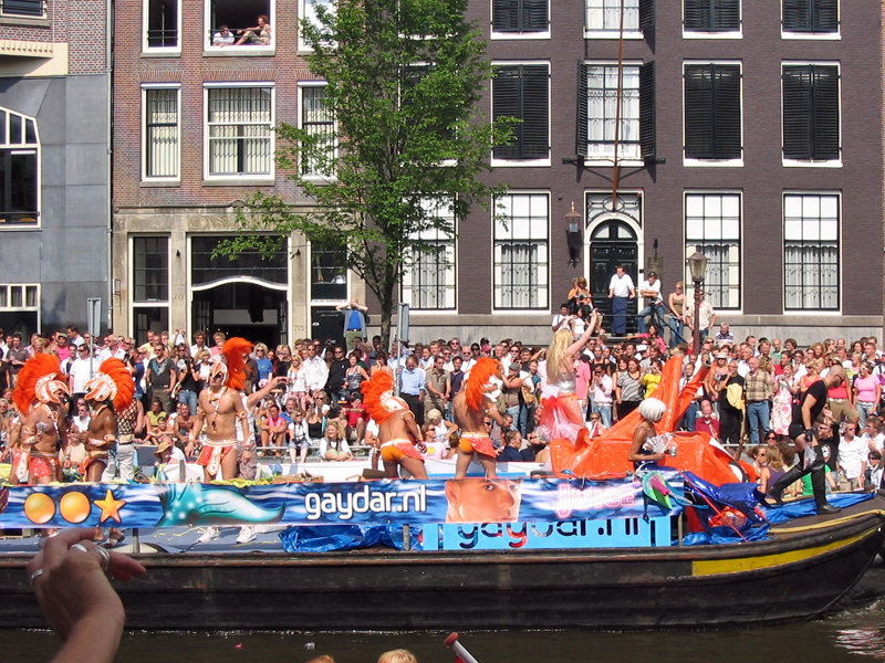 Boat of the gay dating website Gaydar, participating in the Canal Parade of the Amsterdam Gay Pride 2006